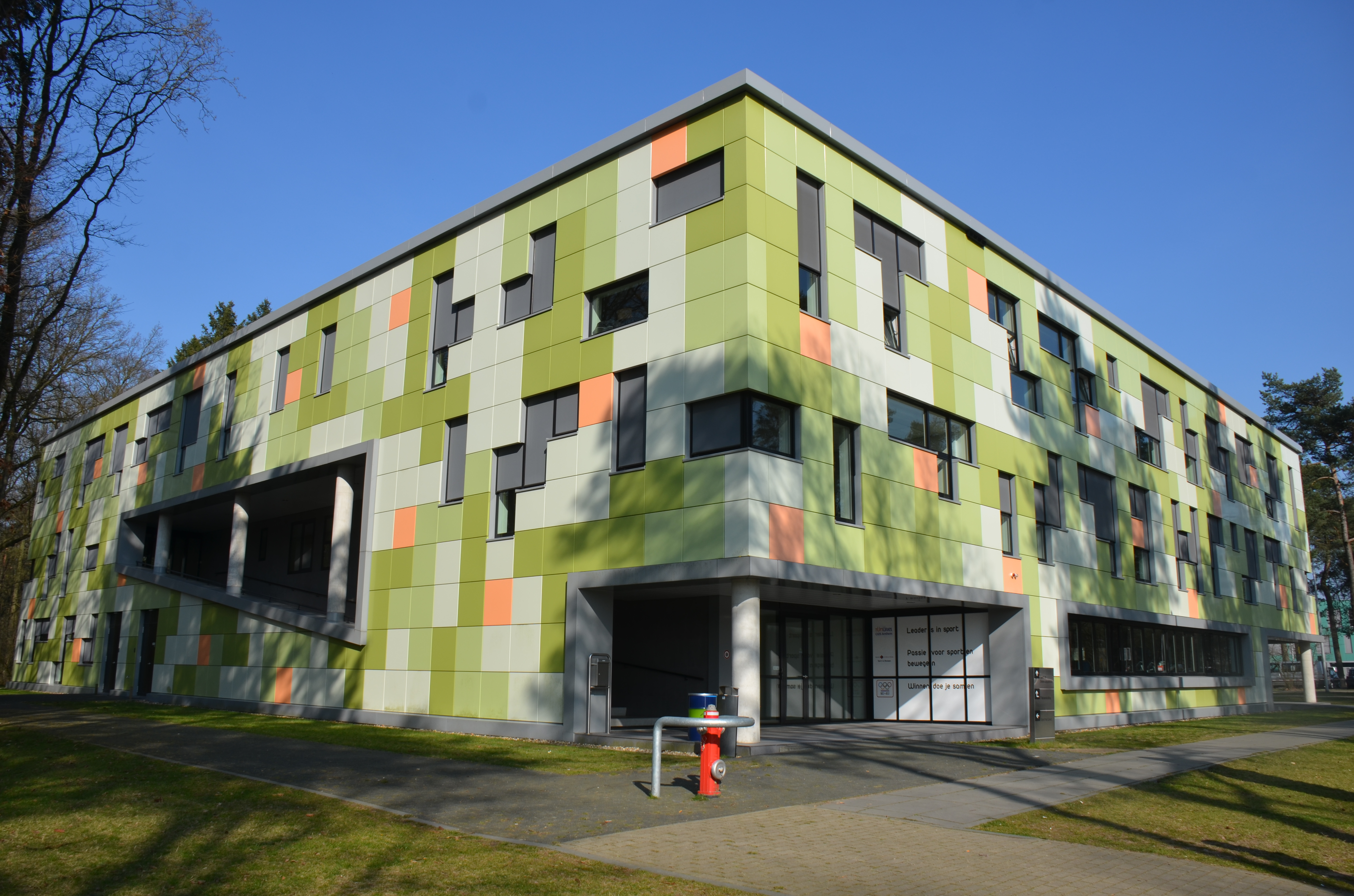 Papendal: National sport education complex with modern buildings